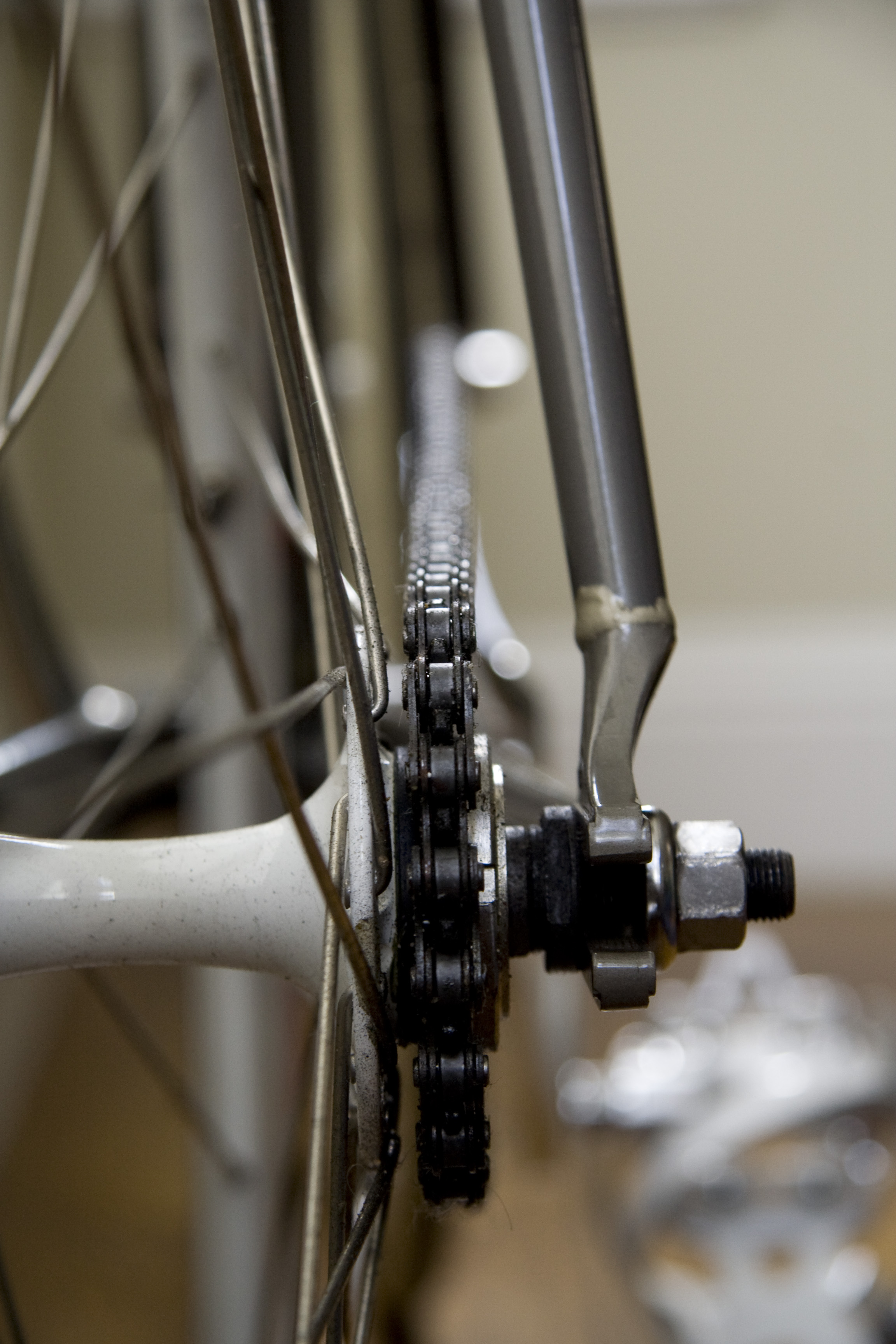 Chainline on a fixie